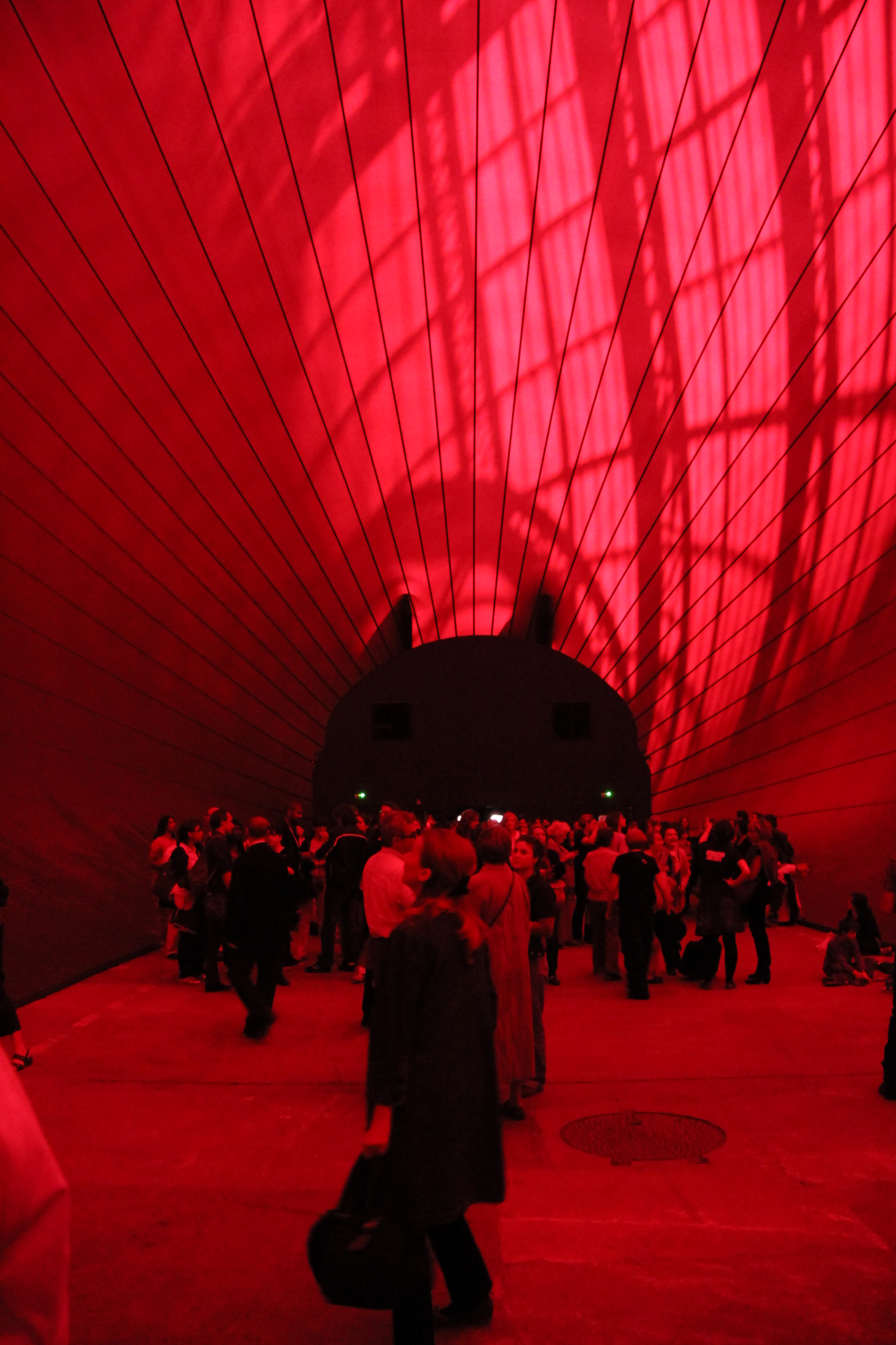 Anish Kapoor: Leviathan (2011) - interior view